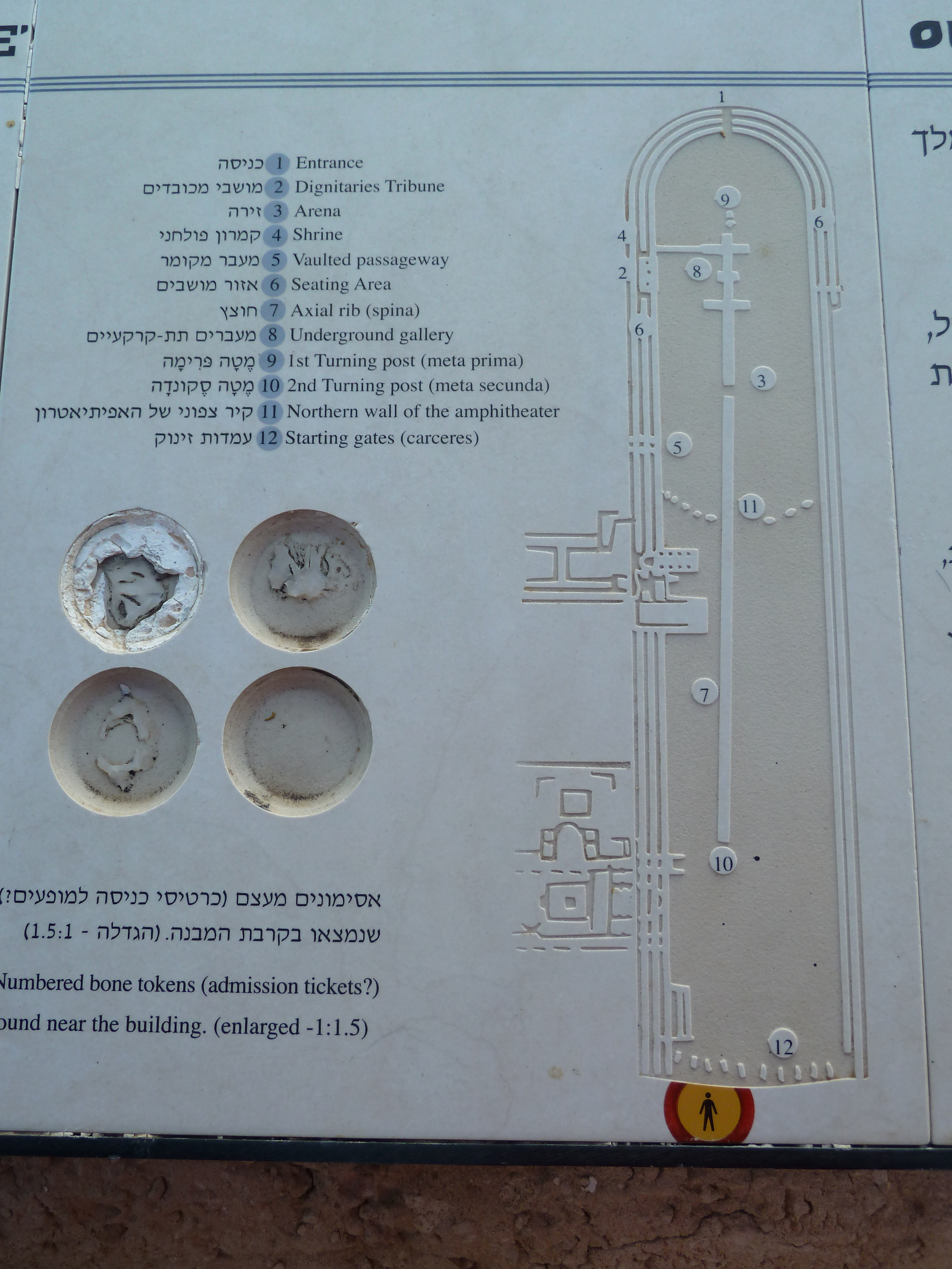 Caesarea Maritima Hippodrome, Israel